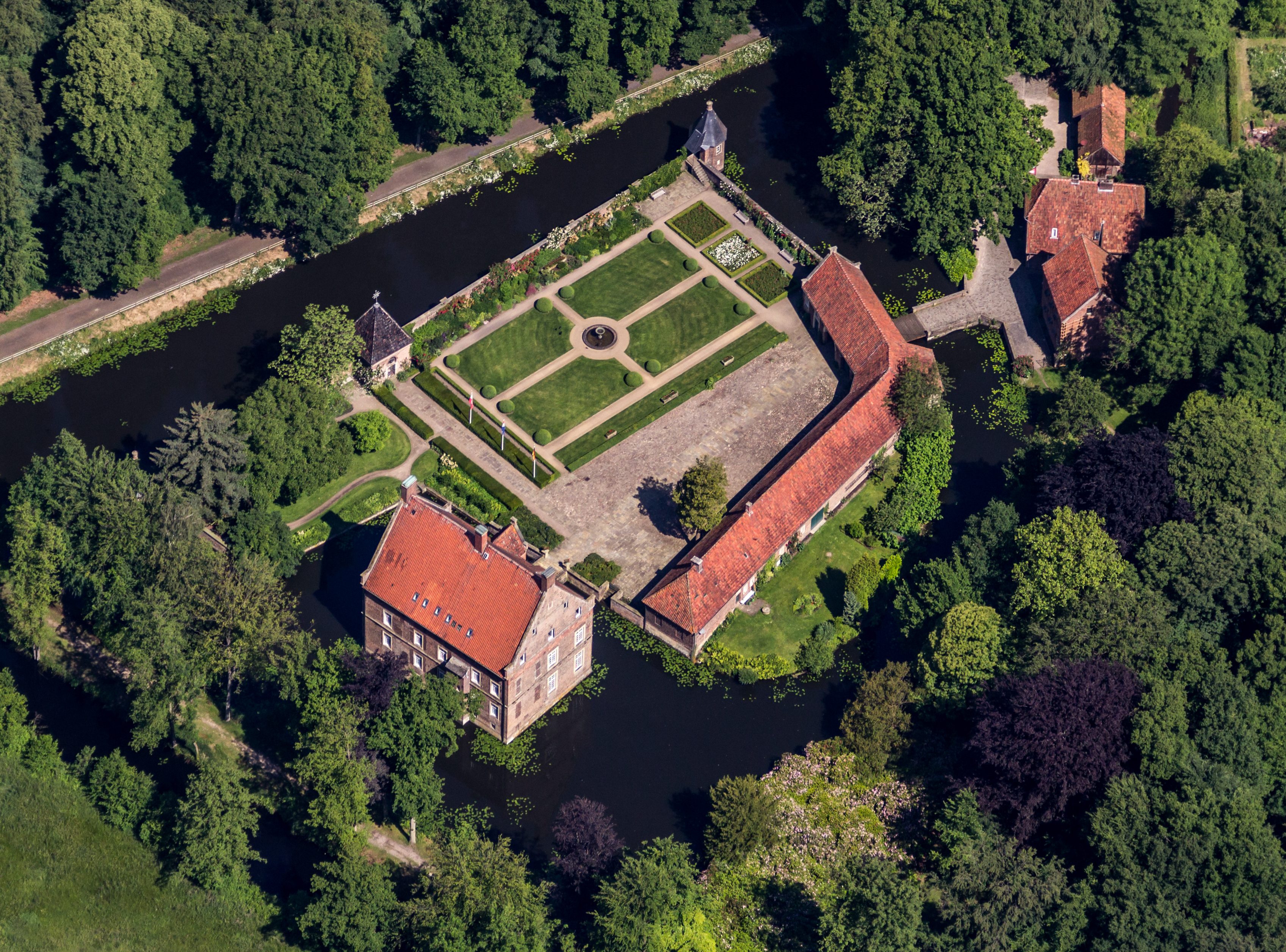 Welbergen Manor, Welbergen, Ochtrup, North Rhine-Westphalia, Germany This image shows a heritage building in Germany, located in the North Rhine-Westphalian city Ochtrup (no. 19).